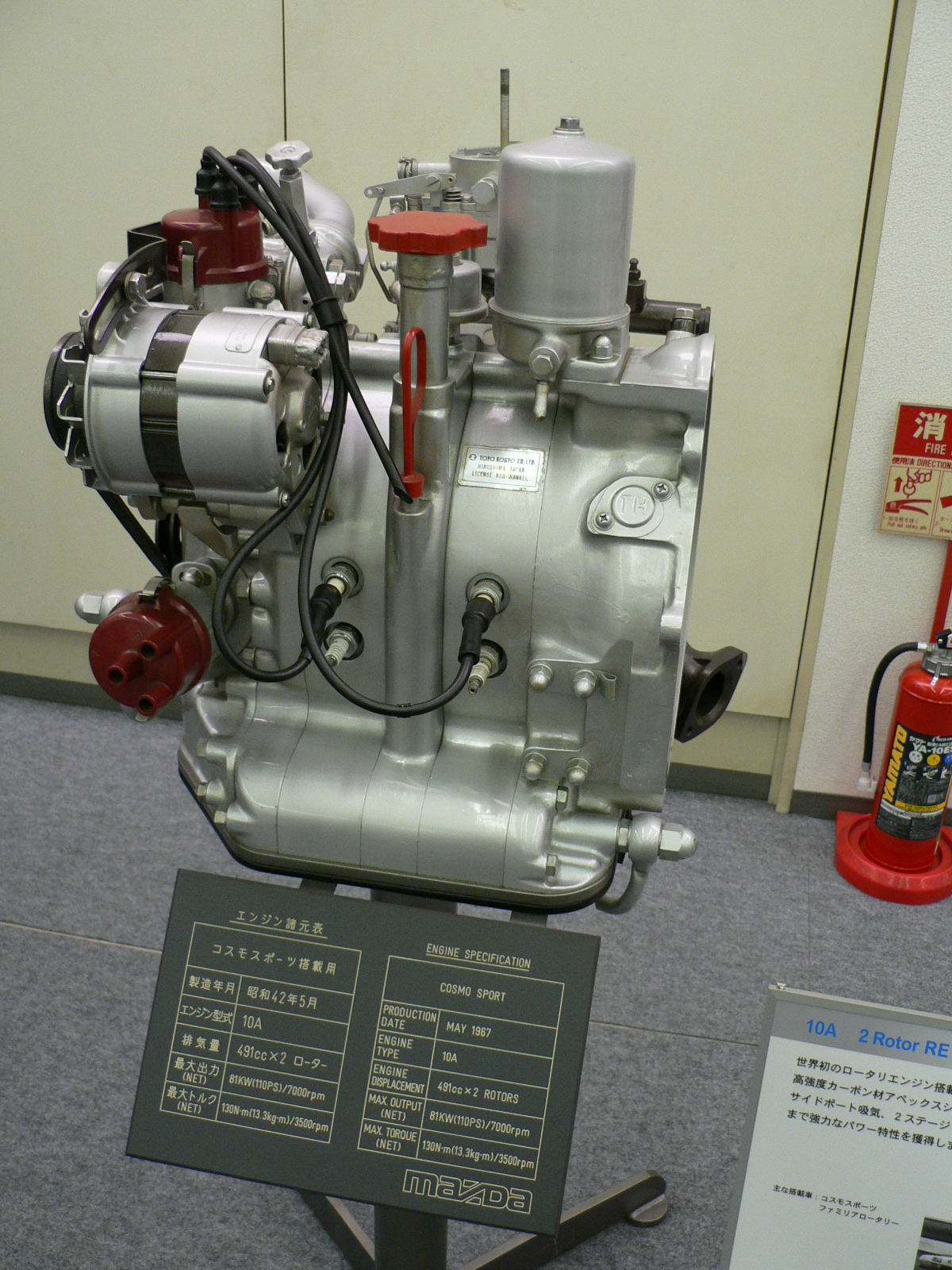 MAZDA 10A engine for COSMO SPORT